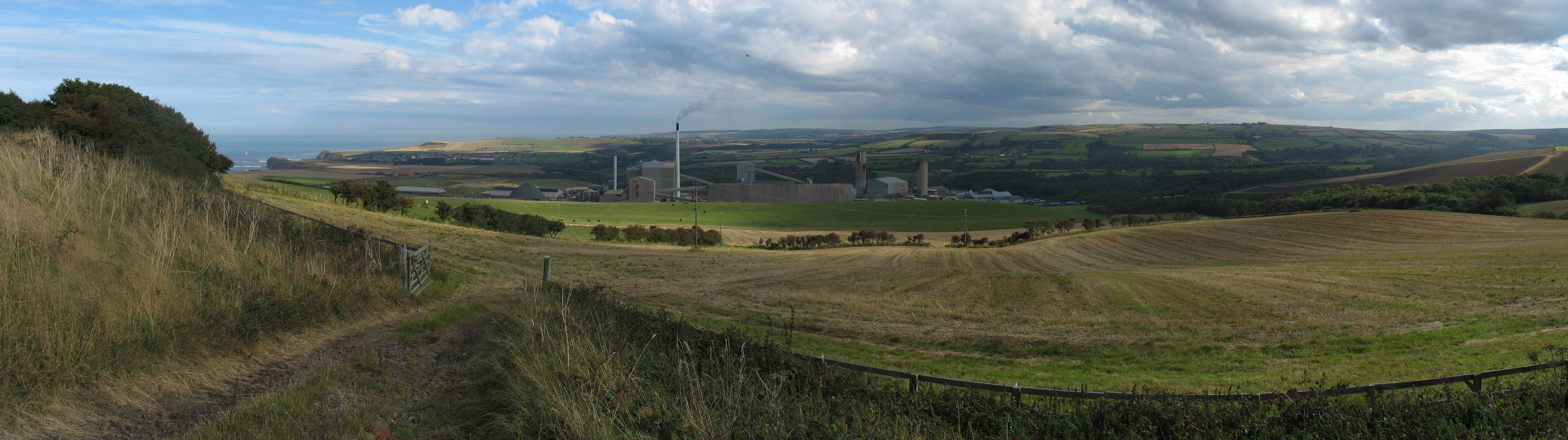 Boulby mine seen from the hillside.